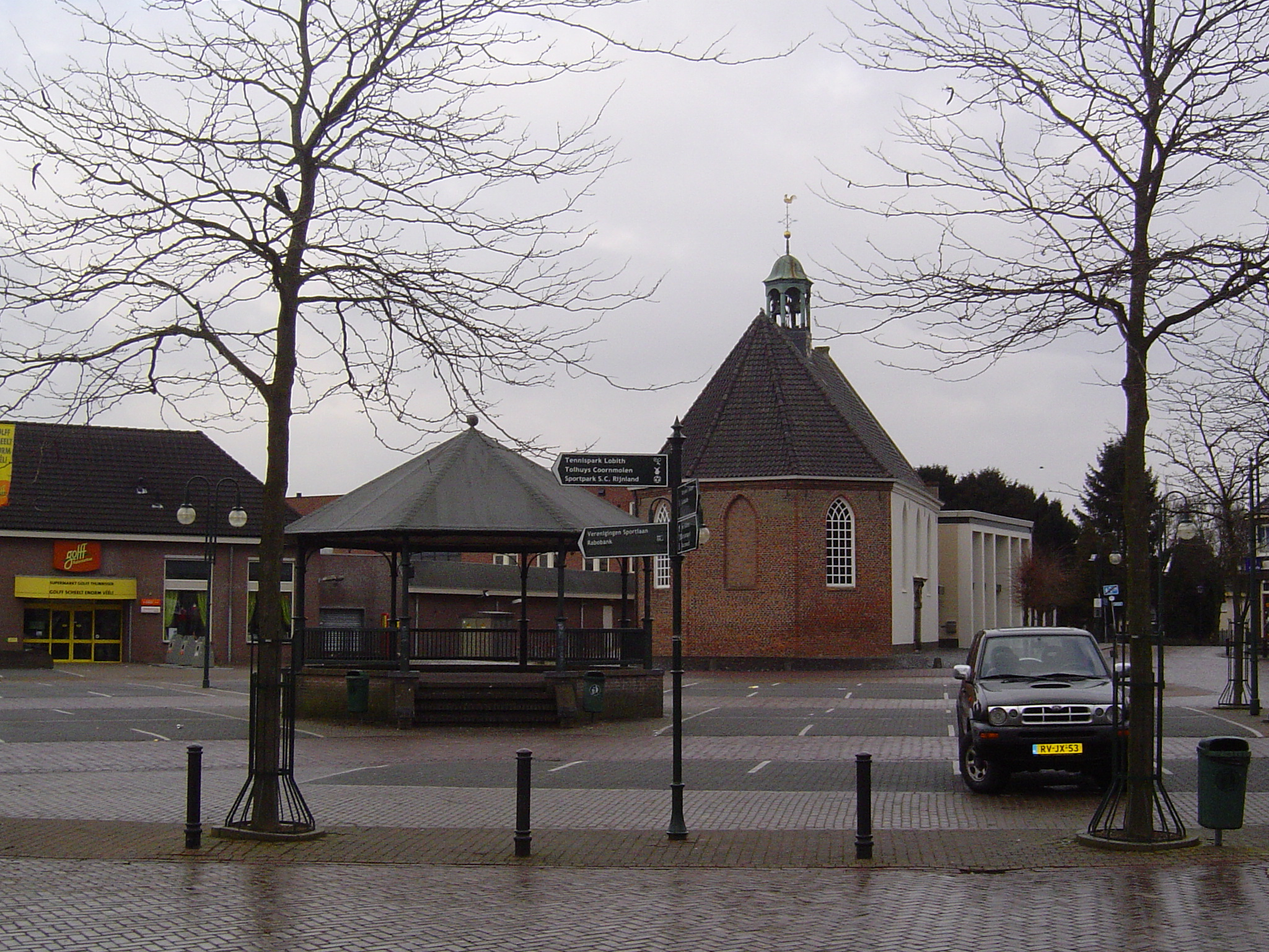 Markt - Lobith, The Netherlands